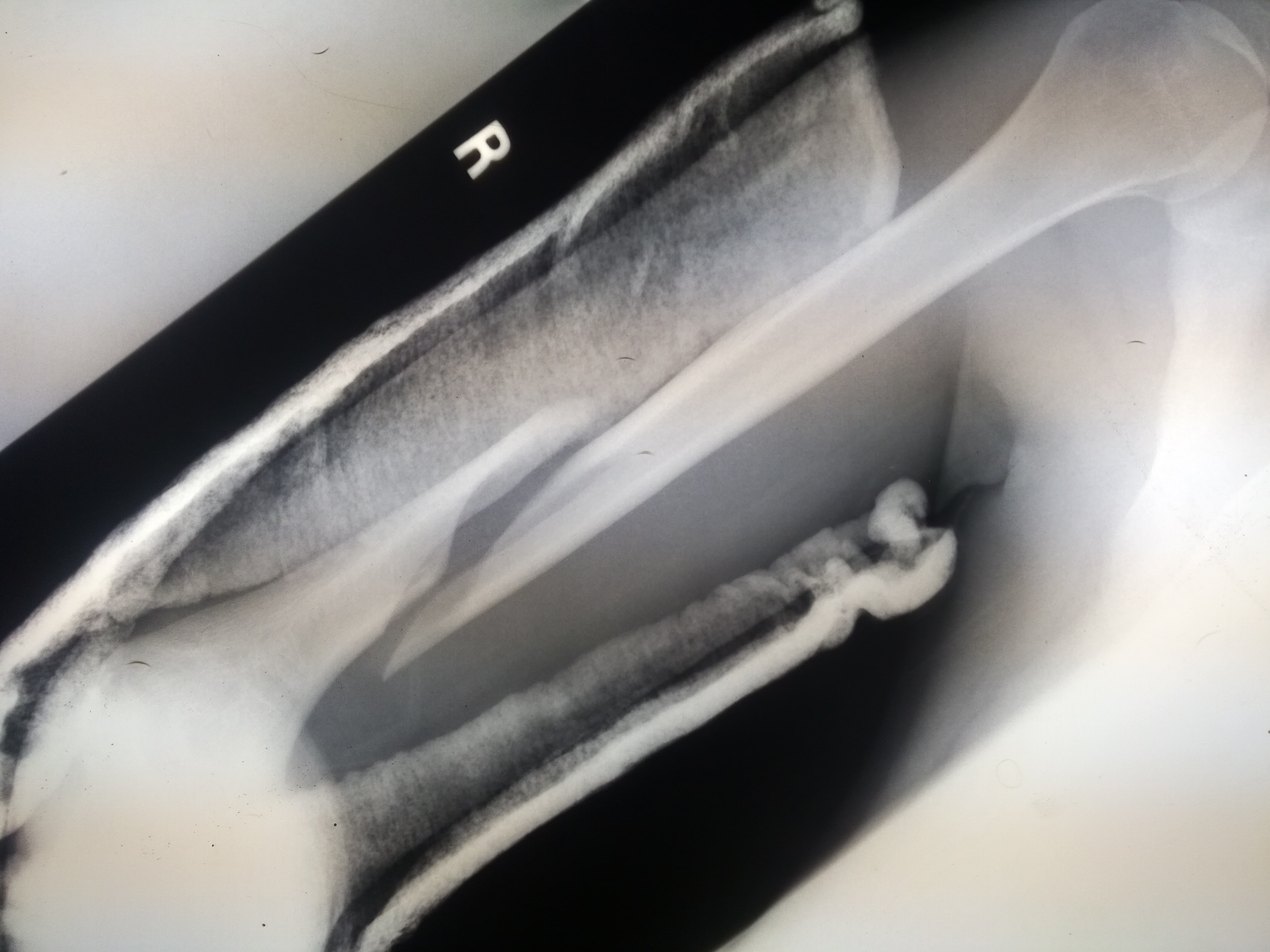 This is the typical arm break that happens in an armwrestling match. The humerus get twisted until it snaps.